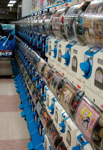 Gashapon machine